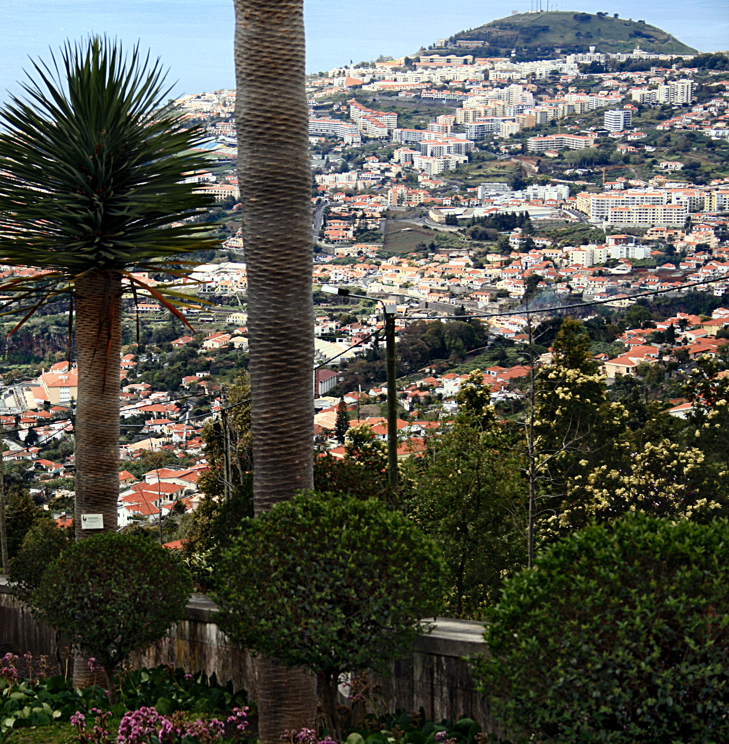 Monte_(Funchal)_-_Look_of_the_tropical_garden_on_the_town